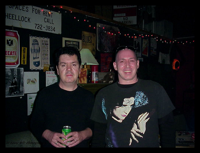 Lol Tolhurst (on the left) with a fan